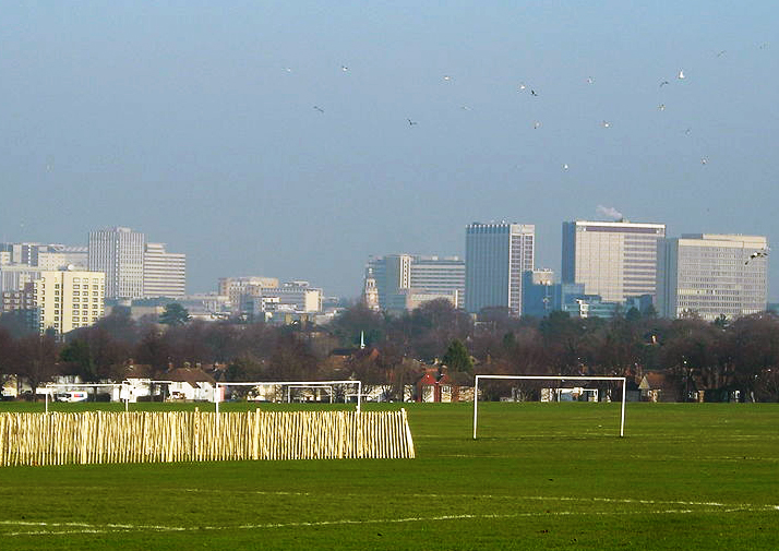 The skyline of Croydon town centre as seen from the Croydon Colonades in Purley Way.